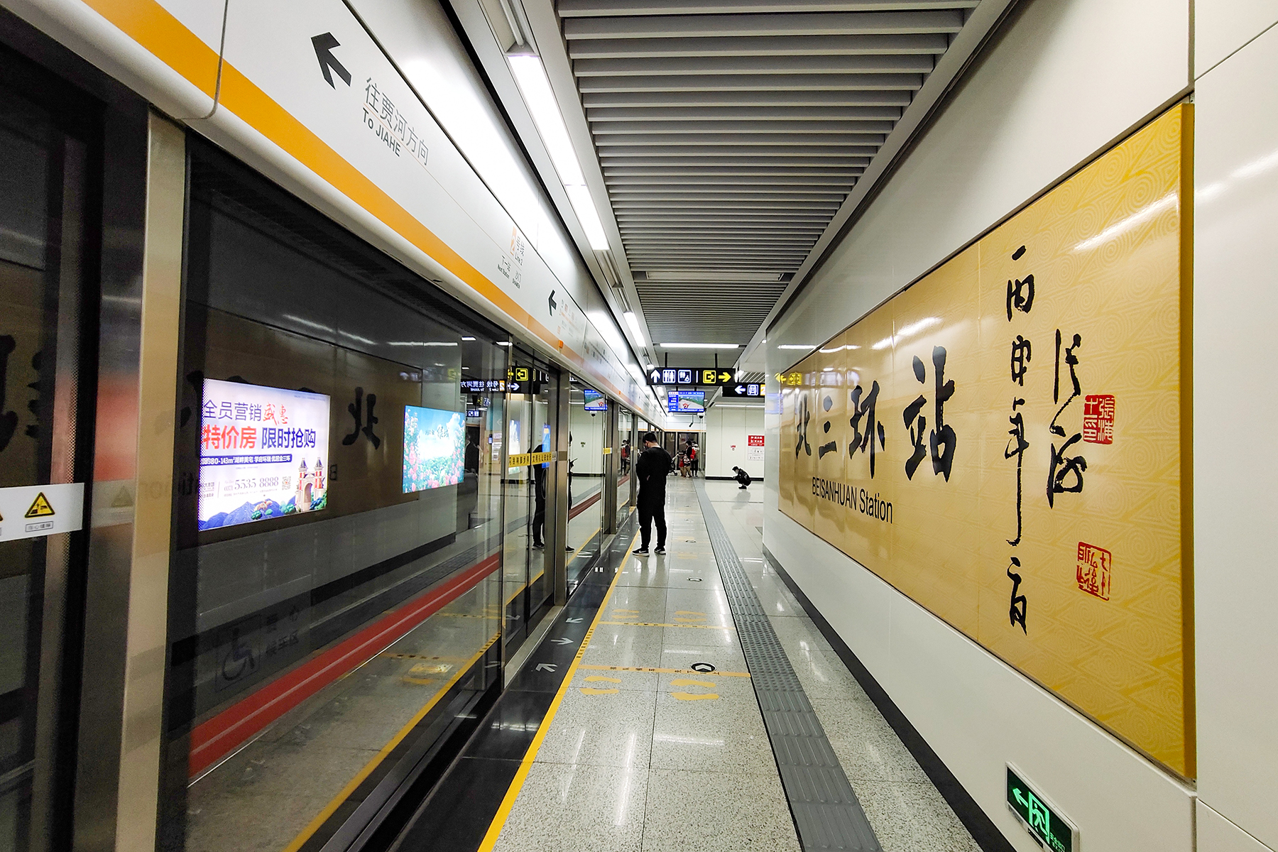 Platform of Zhengzhou Metro Beisanhuan Station